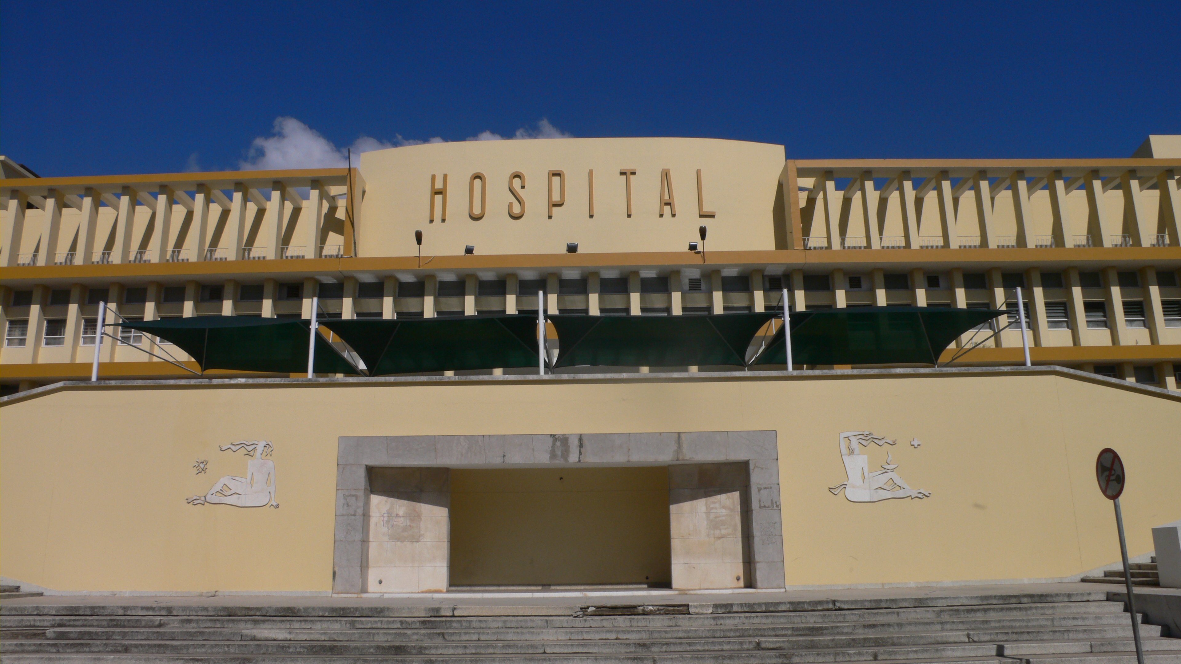 Central Hospital in Maputo, Mozambique